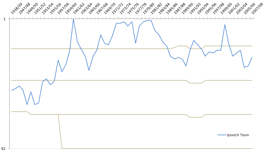 Self made graph showing Ipswich Town F.C. league finishing positions since turning professional. More up to date than version currently on ITFC page. The horizontal grayish lines represent the different divisions; currently from top to bottom Premier League (historically Football League Division 1), Football League Championship (Division 2), Football League One (Div 3) and Football League Two (Div 4). Before the 58/59 season, Division 3 consisted of 2 parallel divisions: Football League Third Division South and Football League Third Division North. Division 3 South is shown here. Prior to this, the Fourth Division did not exist, hence the vertical line denoting the founding of that division.